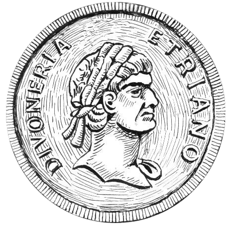 b/w line art drawing of a contorniate